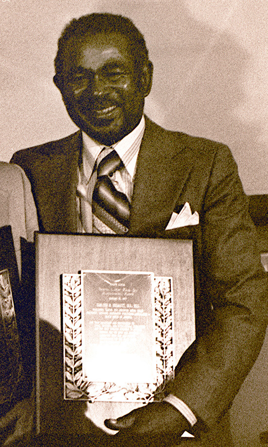 Carlton Goodlett receiving Martin Luther King, Jr. Humanitarian Award - January 1977. (Cropped from group photo by Nancy Wong).